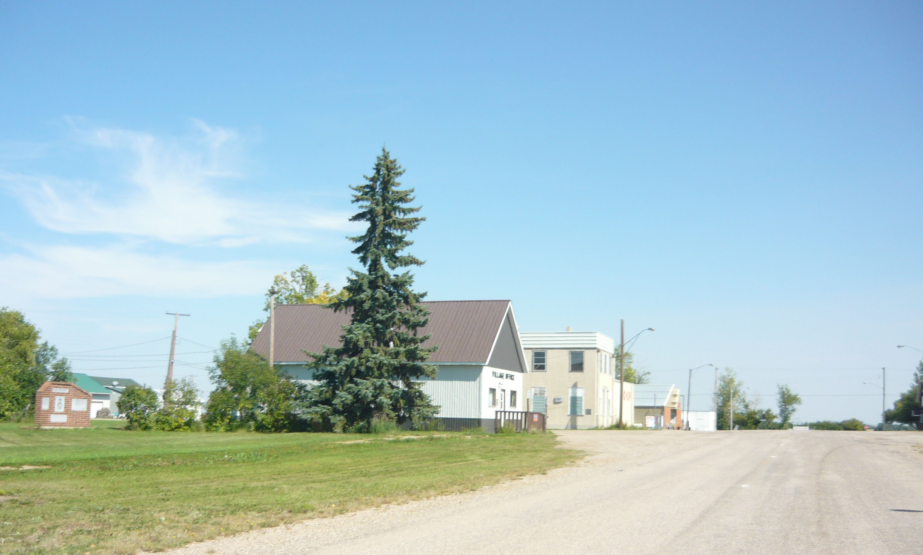 Lincoln Street (at intersection of Saskatchewan Avenue), Liberty, Saskatchewan, Canada.